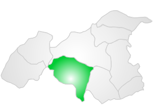 Location map of Şahinbey district, Gaziantep Province, Turkey